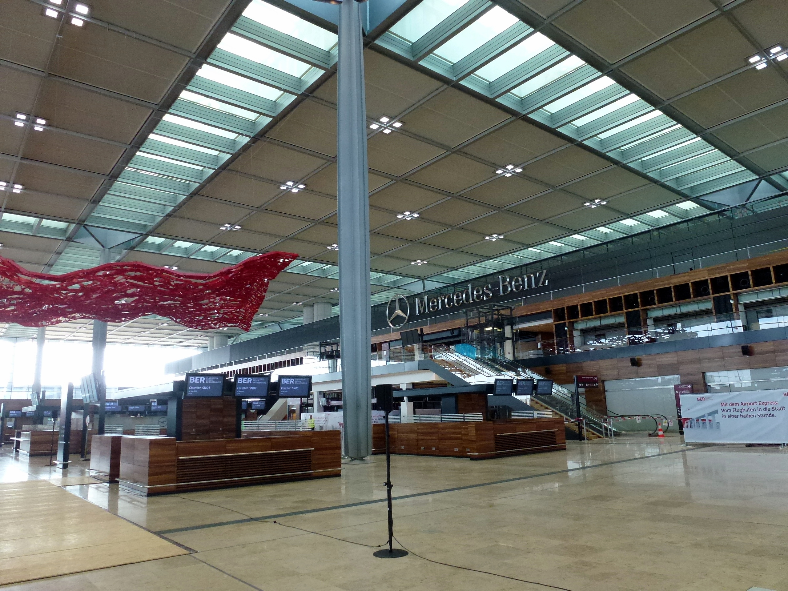 BER Terminal